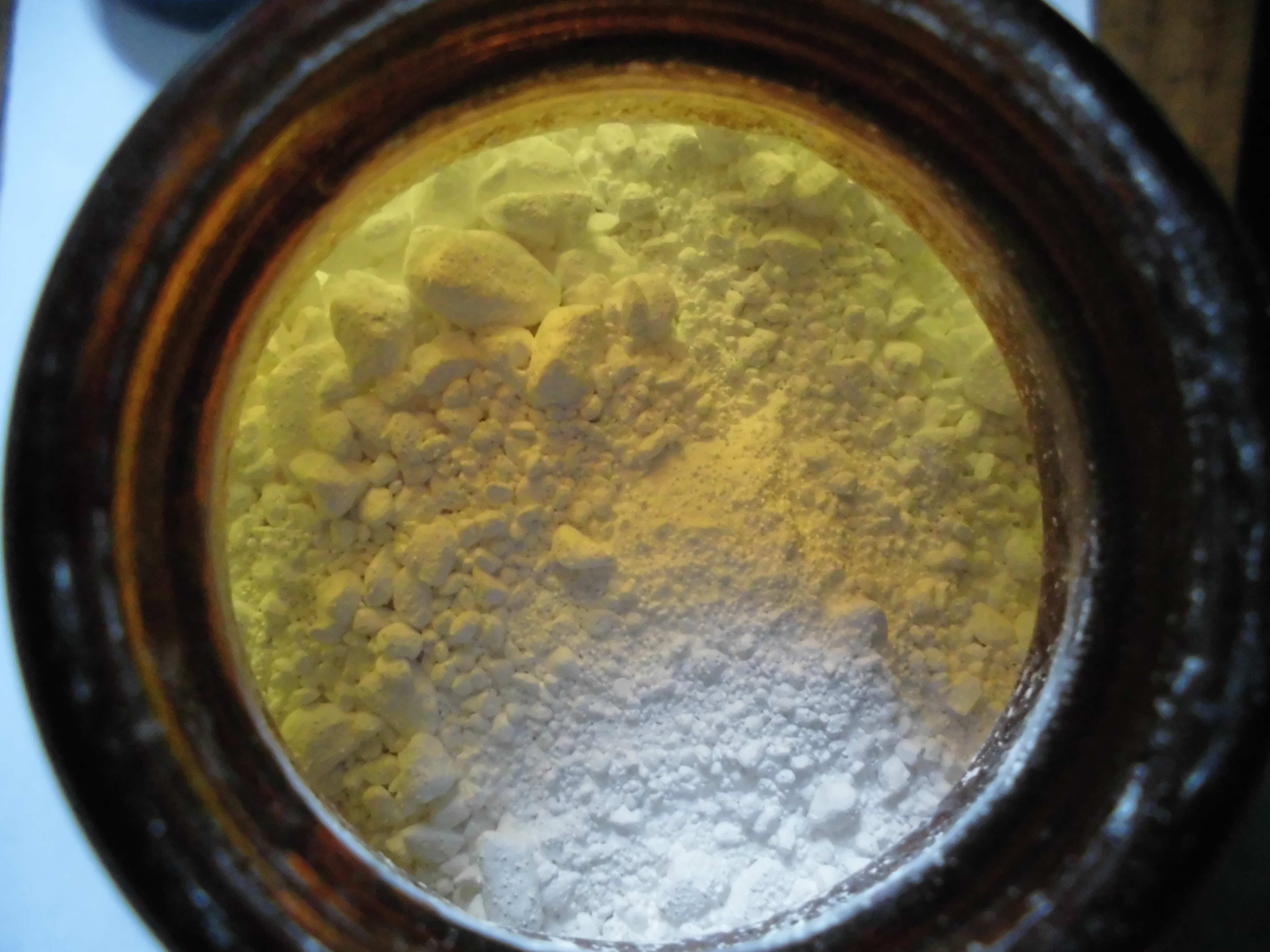 Cadmium carbonate, CP.